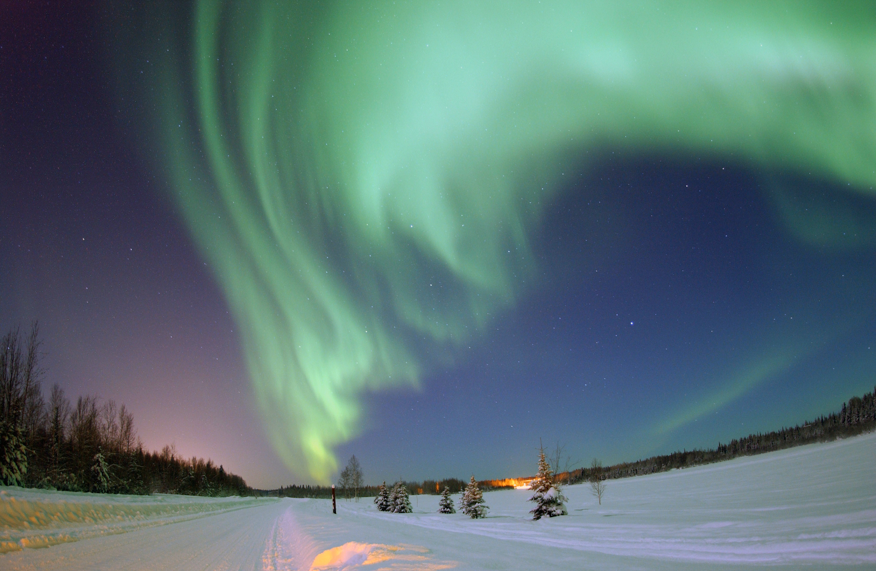 The Aurora Borealis or Northern Lights shines above Bear Lake at Eielson Air Force Base, Alaska, on 18 Jan. 2005. (U.S. Air Force Photo by Senior Airman Joshua Strang) (Released)